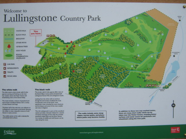 Information board about Lullingstone Country Park This board is close to the Golf Clubhouse. It shows the footpaths and layout of the golf course within the Country Park.